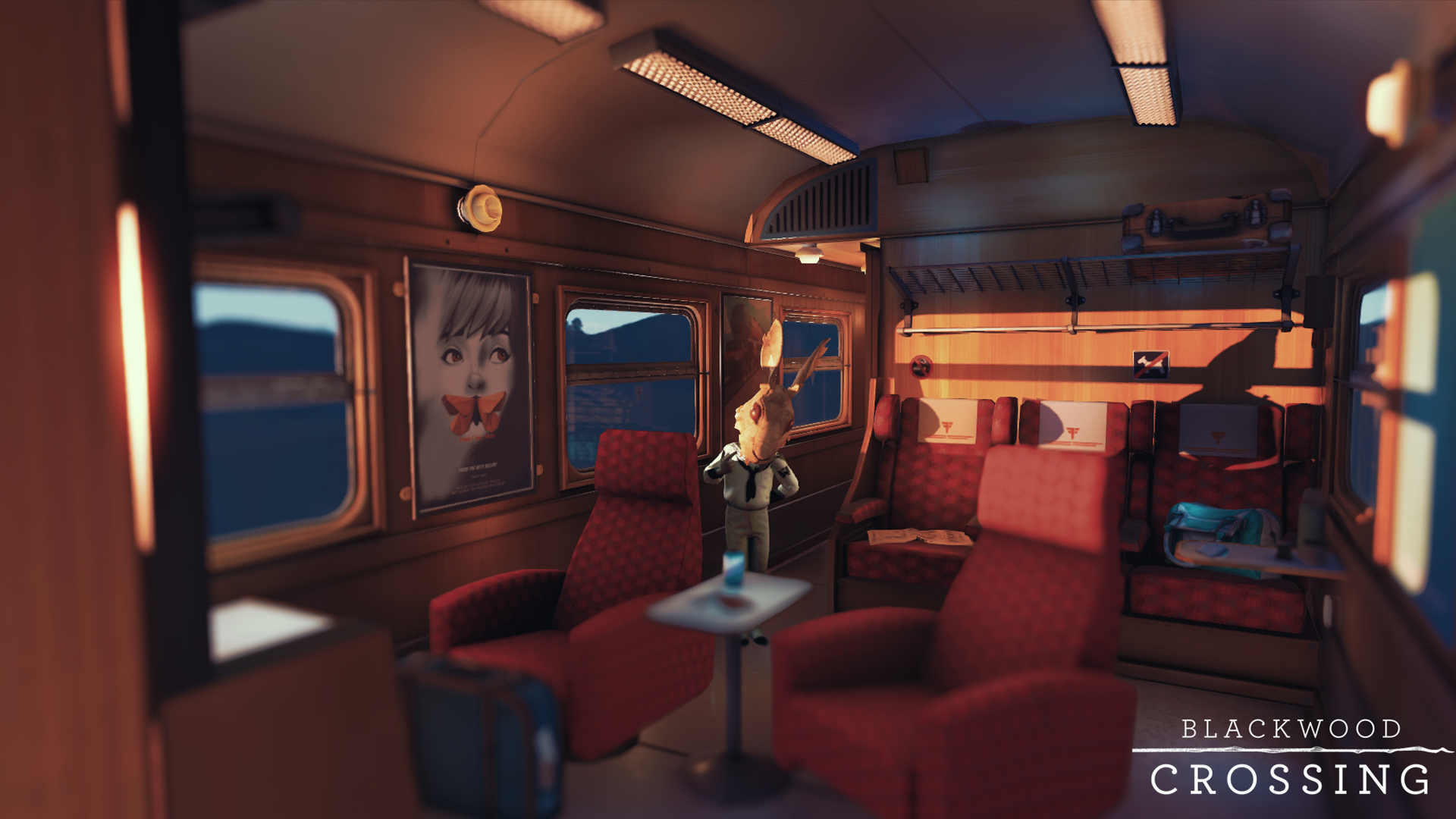 Screenshot of video game Blackwood Crossing